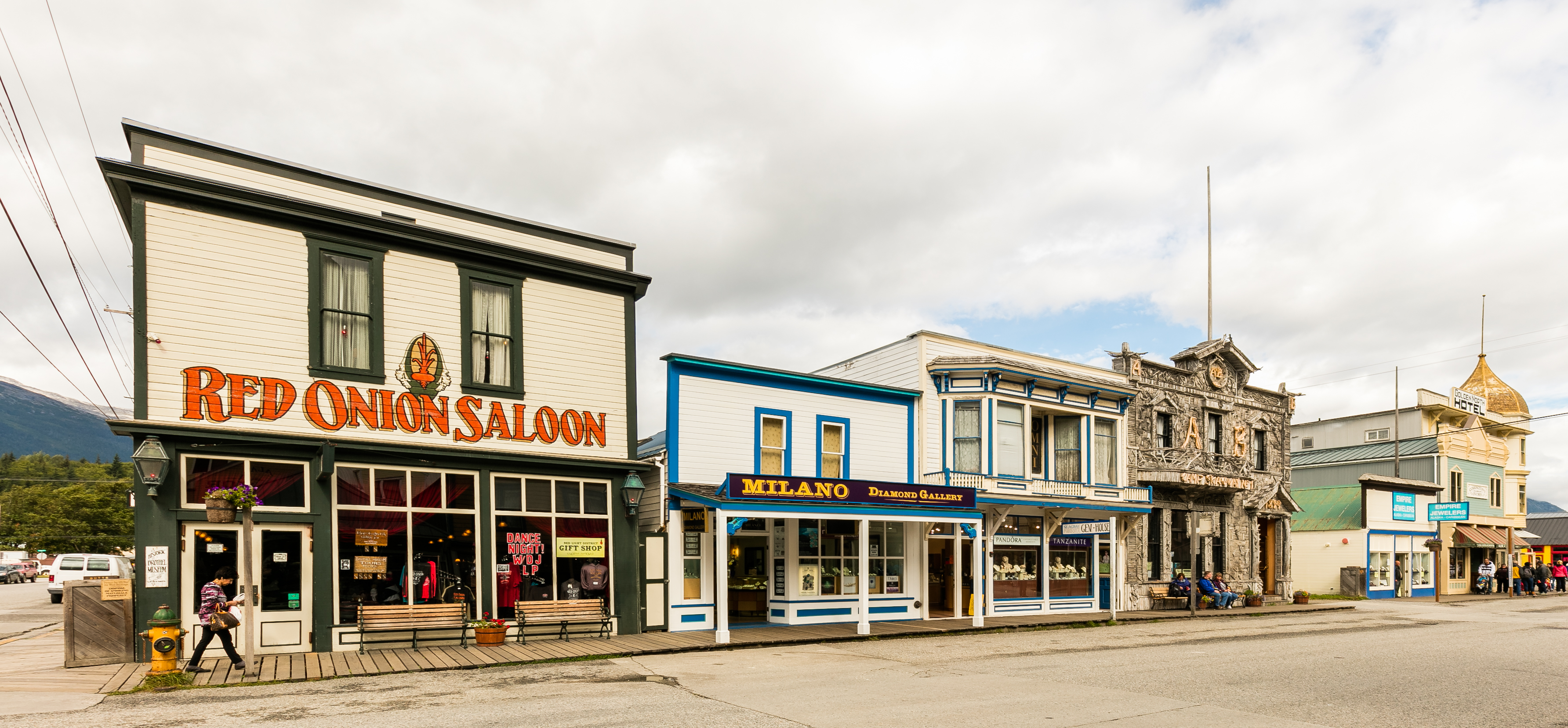 Skagway Historic District, Alaska, United States